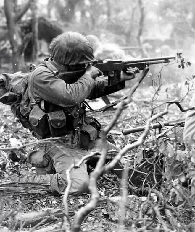 US Marine soldiers firing the BAR at enemy positions